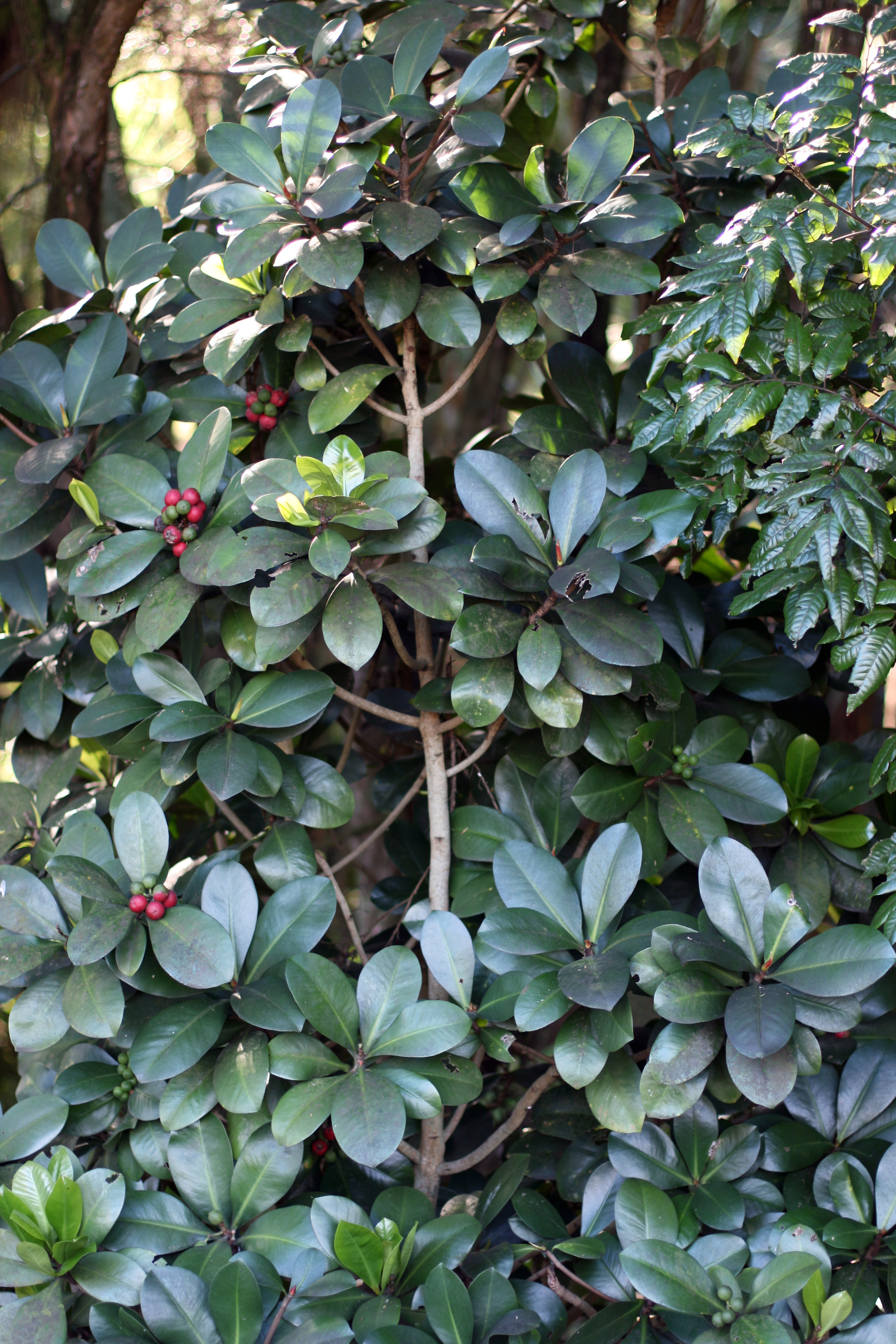 Elingamita johnsonii, the sole species in the genus Elingamita, endemic to the Three Kings Islands, northern New Zealand. To the casual observer, the tree could be mistaken for the Karaka, Corynocarpus laevigatus. However, the bunches of red fleshy fruits are highly distinctive.